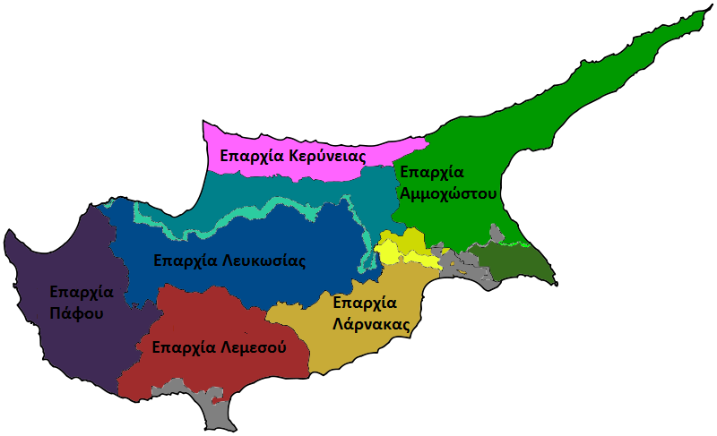 Maps with the six districts of Cyprus Republic (De jure) (Greek names).